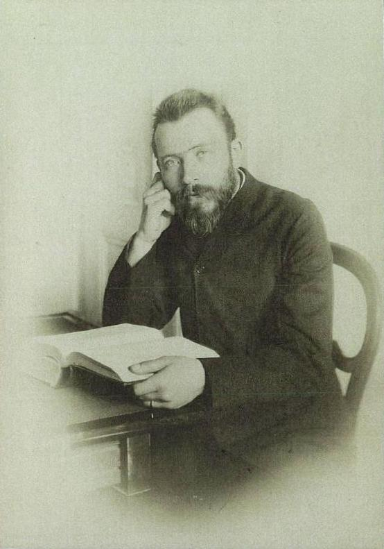 Stanislaus Warynski